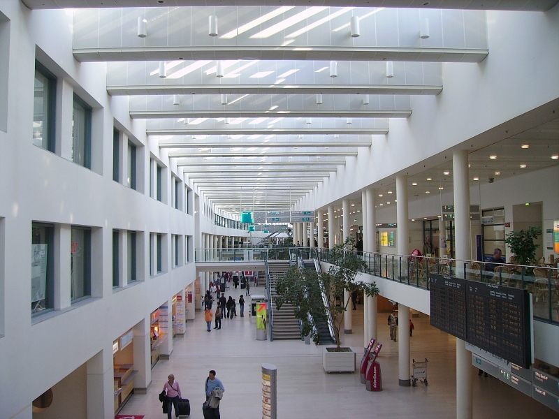 Terminal of the airport of Bremen